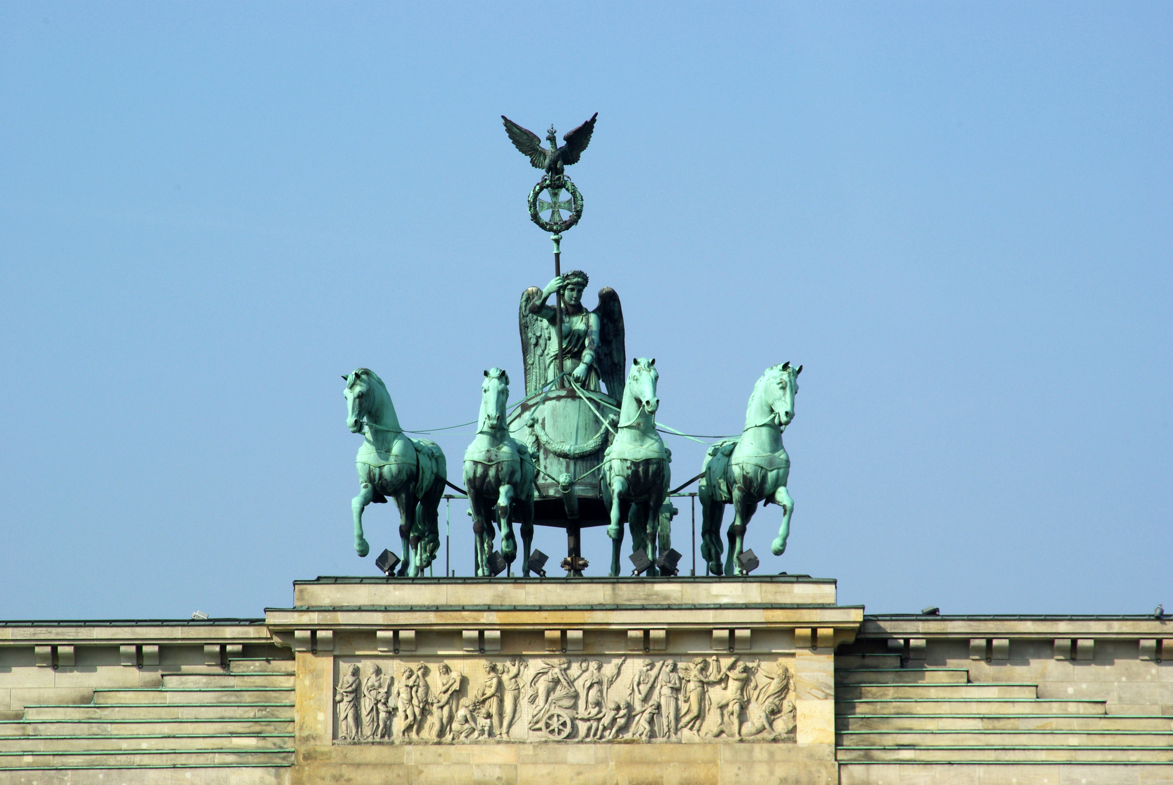 Berlin, Brandenburg Gate, quadriga from east